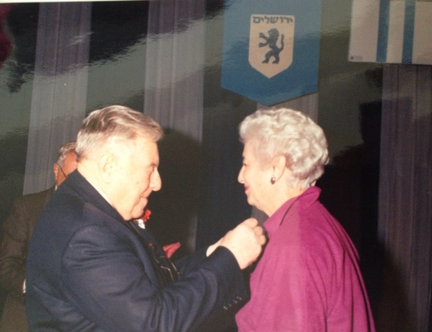 Tamar Eshel is honored by Teddy Kollek, 1990